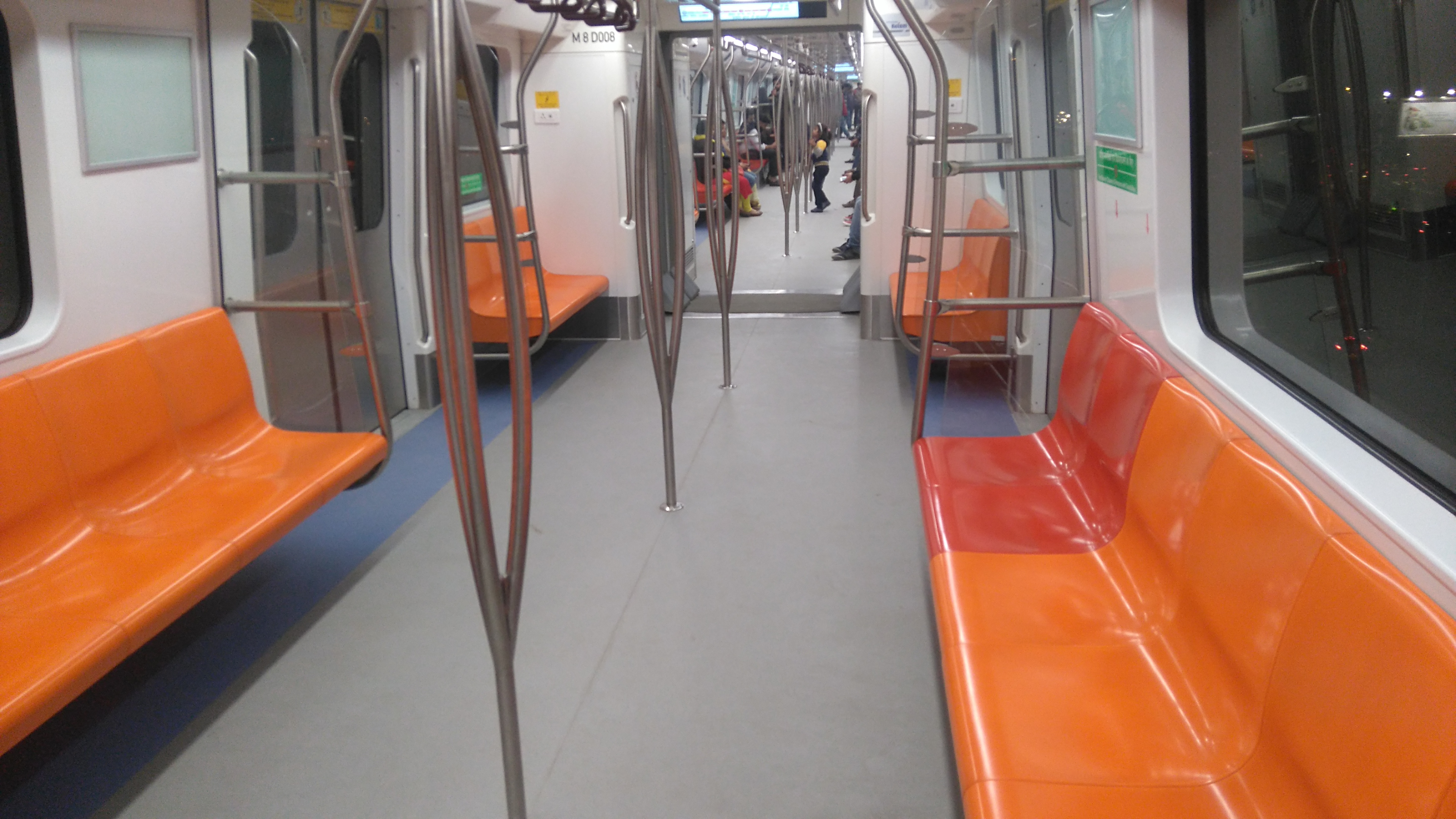 Seating inside a Magenta line Metro